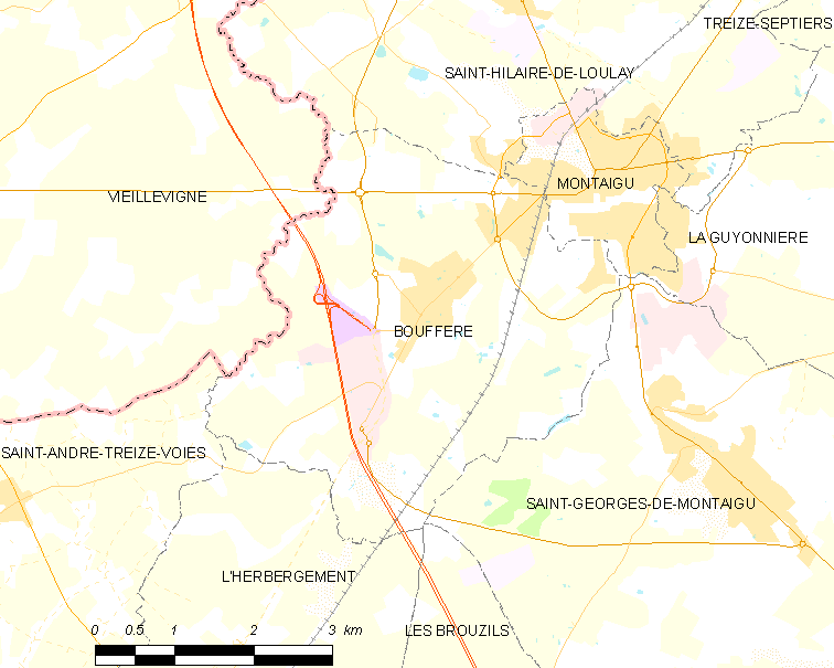 Map of French municipality Boufféré